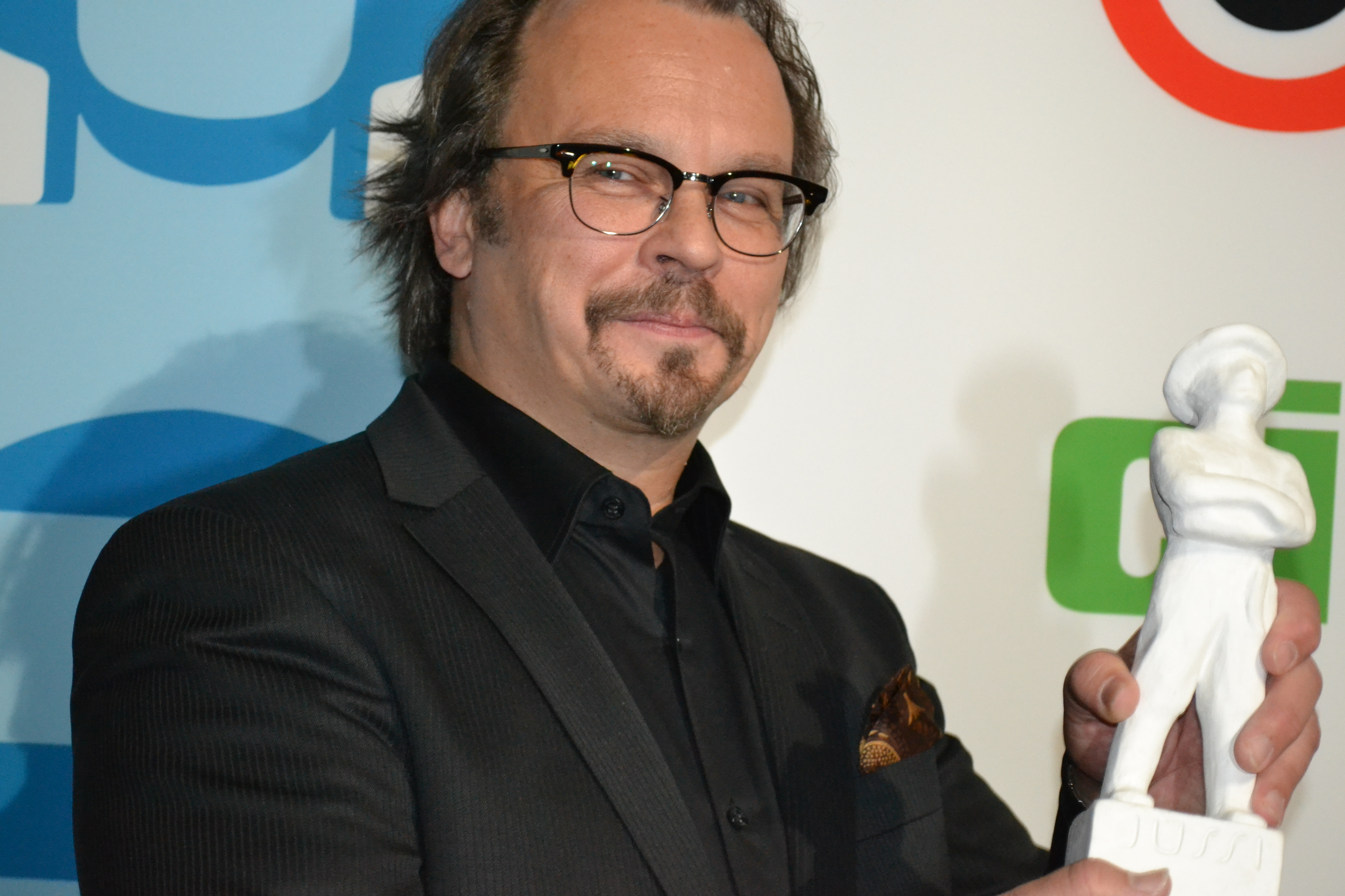 Rauno Ronkainen in 2013 Jussi Awards.